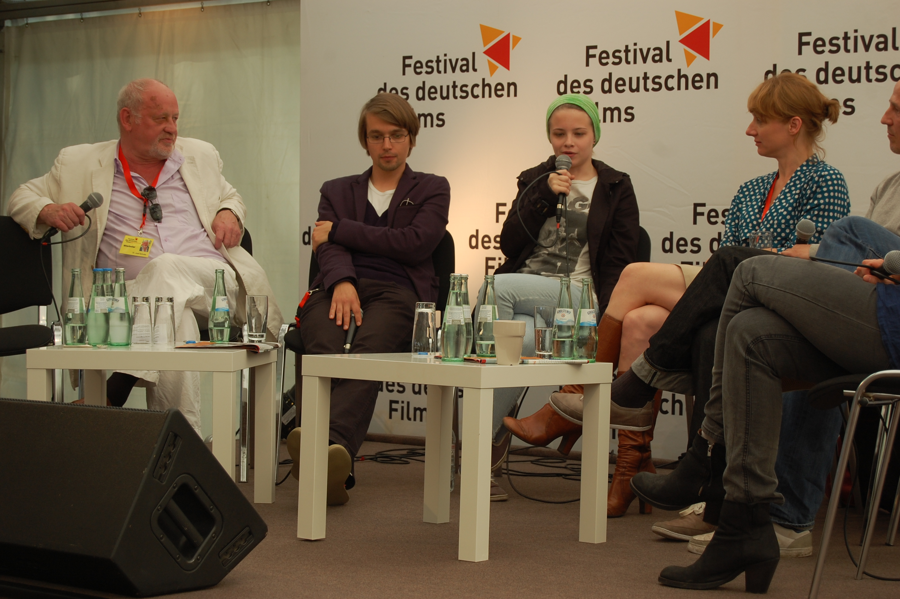 German movie actresses Jasna Fritzi Bauer (third from left) and Christina Große (right) presenting their Movie "Für Elise" at the Festival des Deutschen Films (Festival of the German Movie) 2012 in Ludwigshafen.